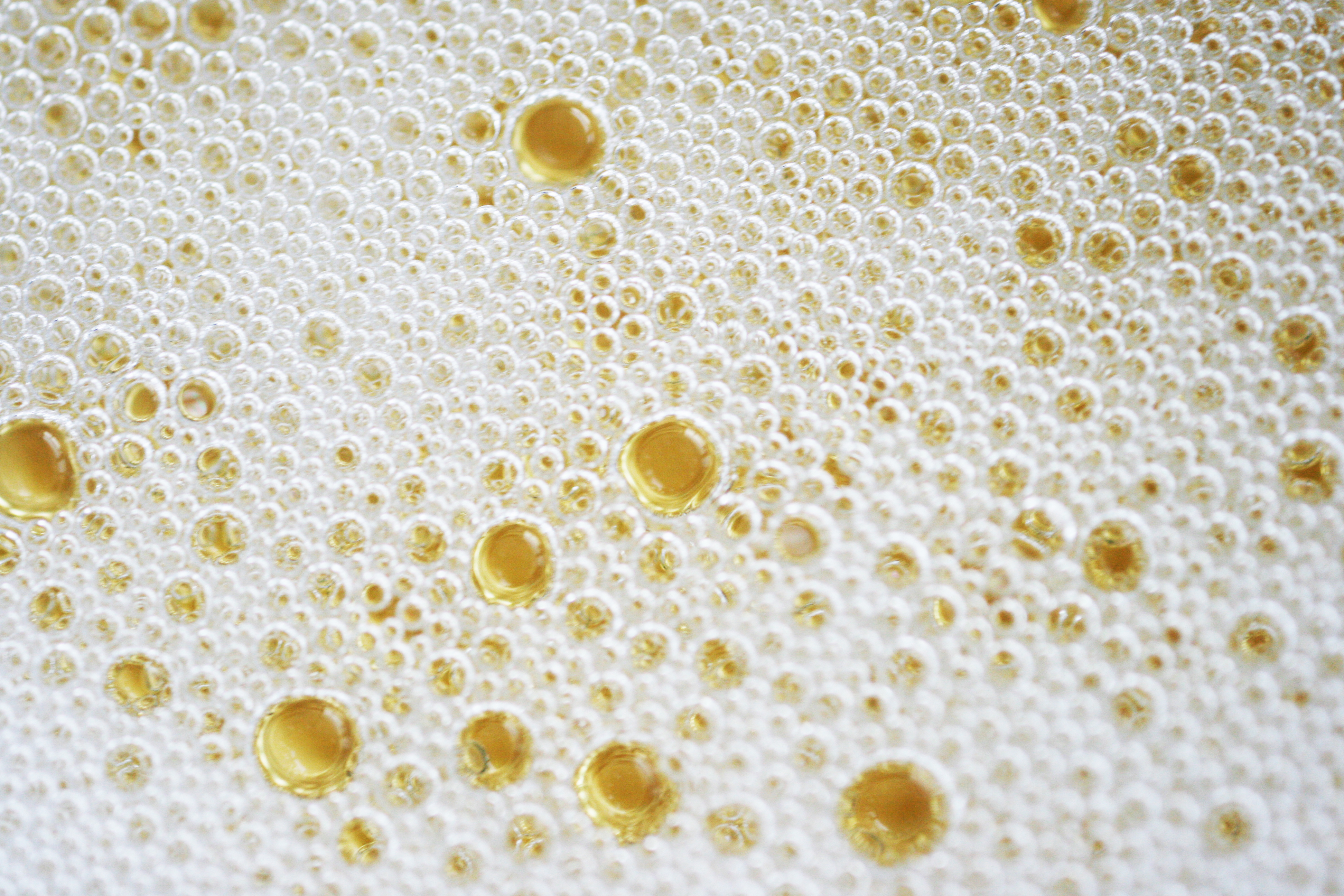 Close up shot of the foaming mousse bubbles from a glass of Champagne.